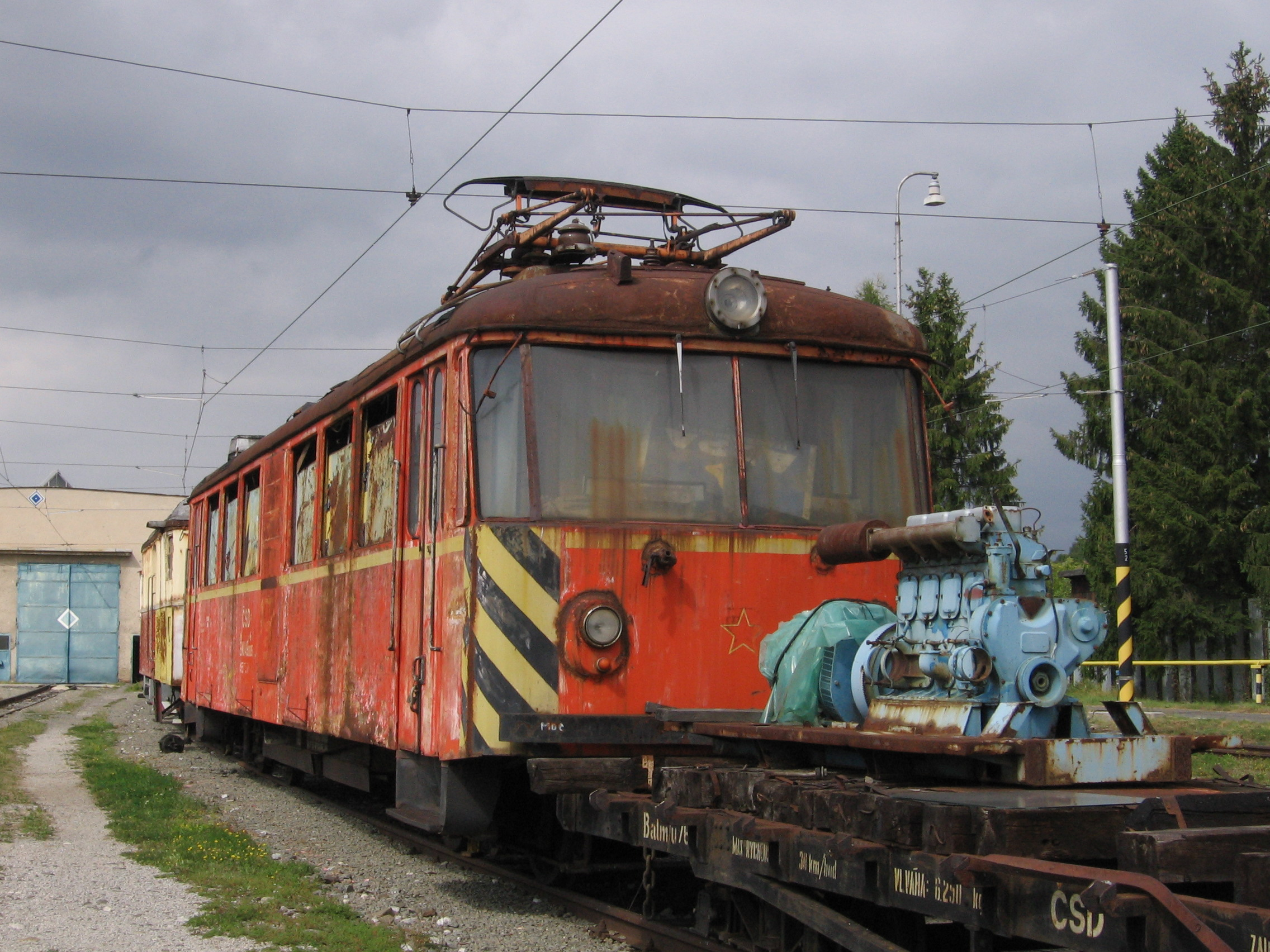 Electric car ČSD EMU 49.005 in depot Poprad